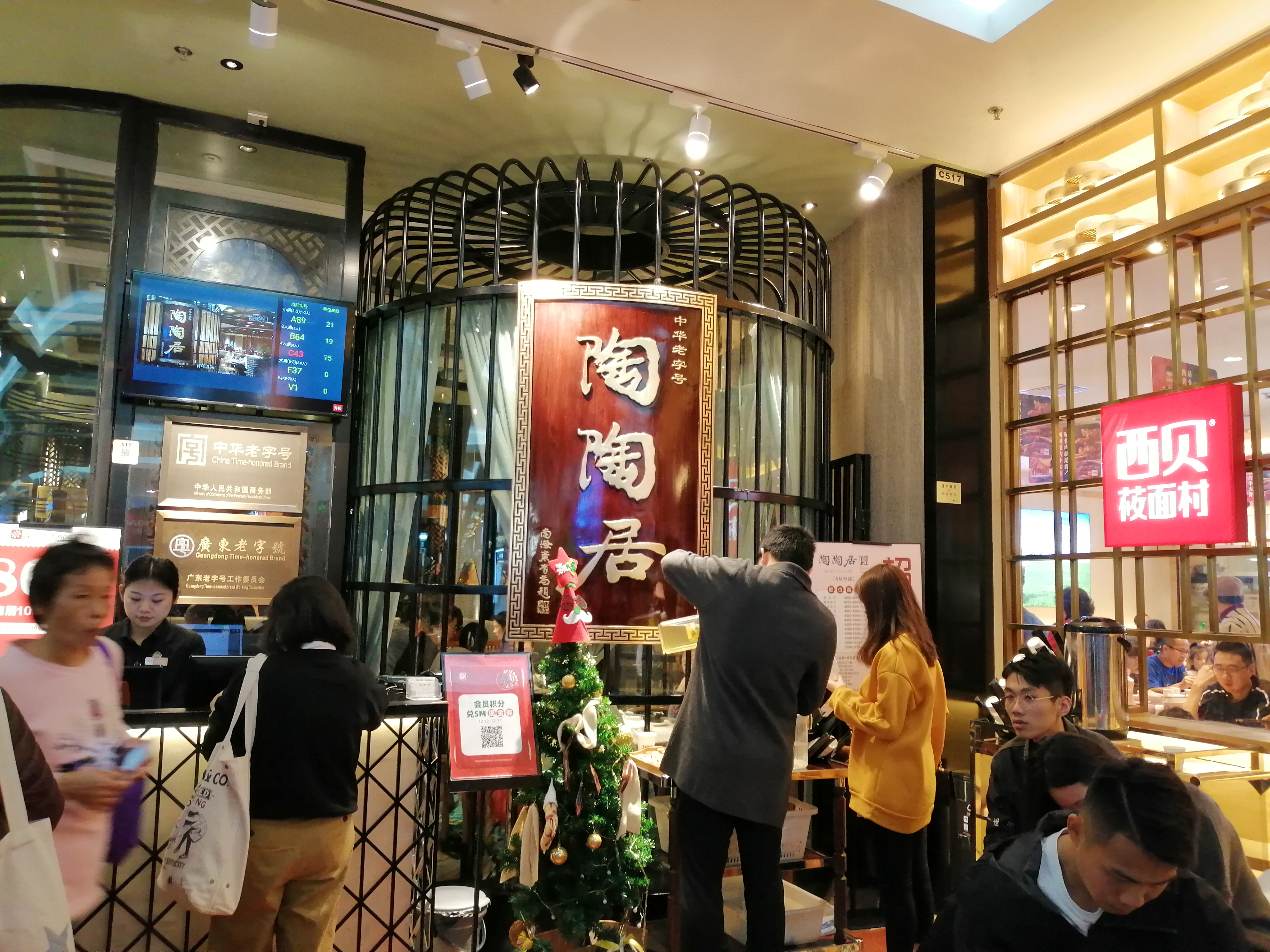 There are too many people to wait seats. It is a high popularity restaurant in Xiamen, which awarded by Meituan Dianping.